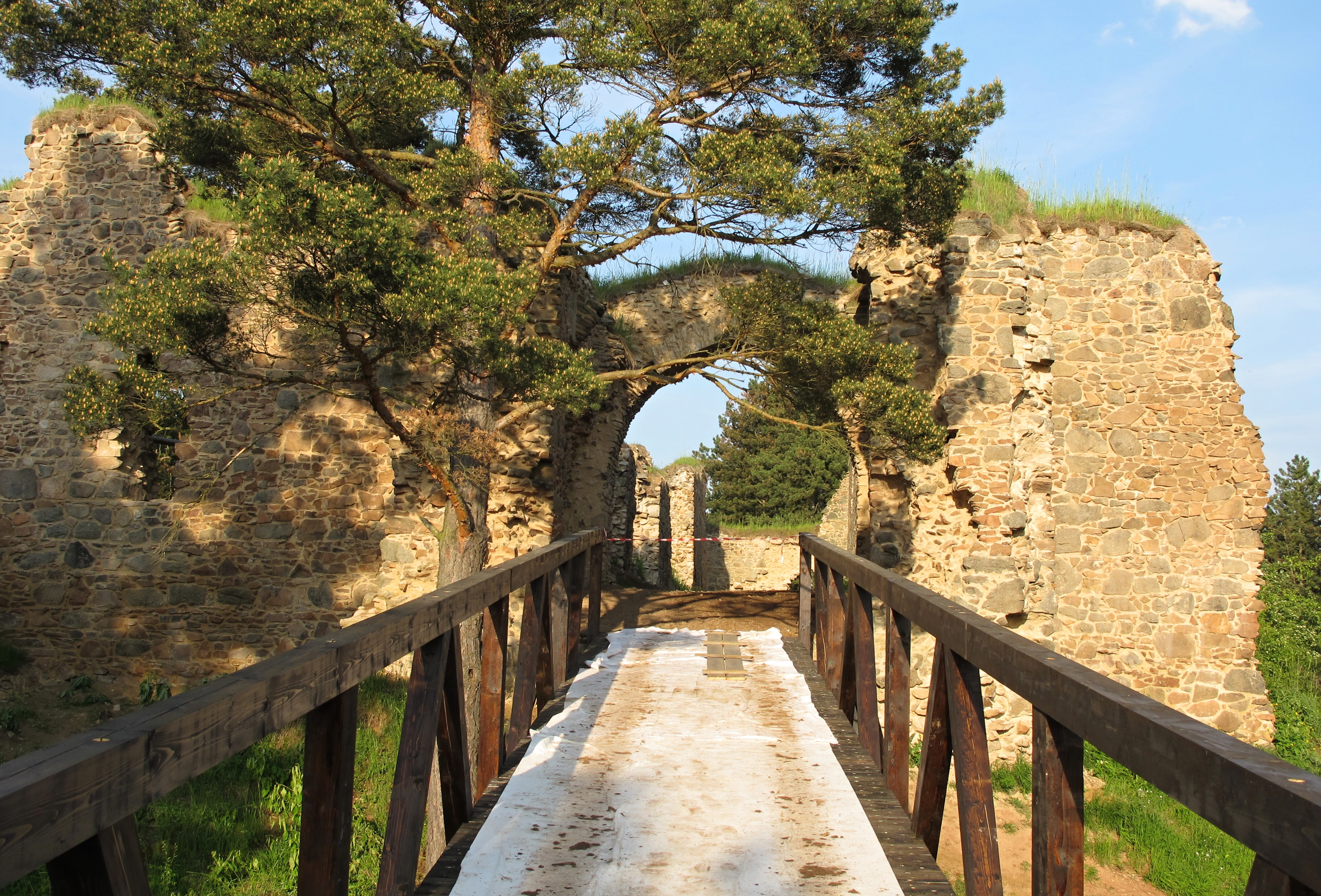 ruins of Vrškamýk Castle near Kamýk nad Vltavou, Příbram District